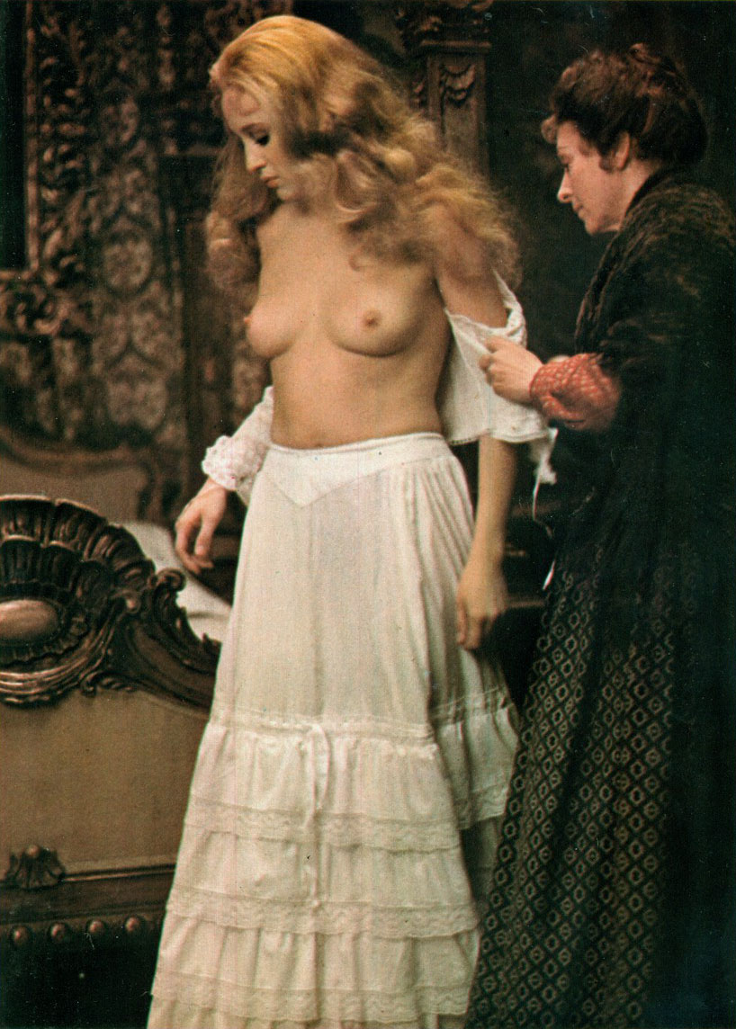 Italian actress Eleonora Giorgi on the set of the film Il bacio directed by Mario Lanfranchi (1974).